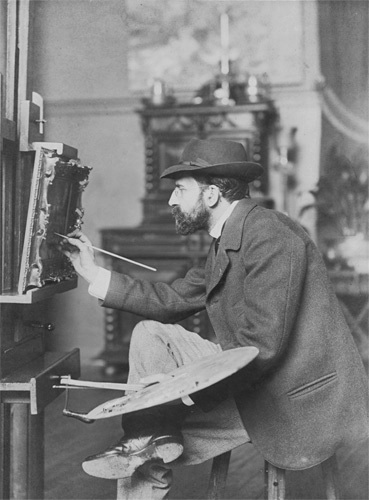 Victor Gilbert